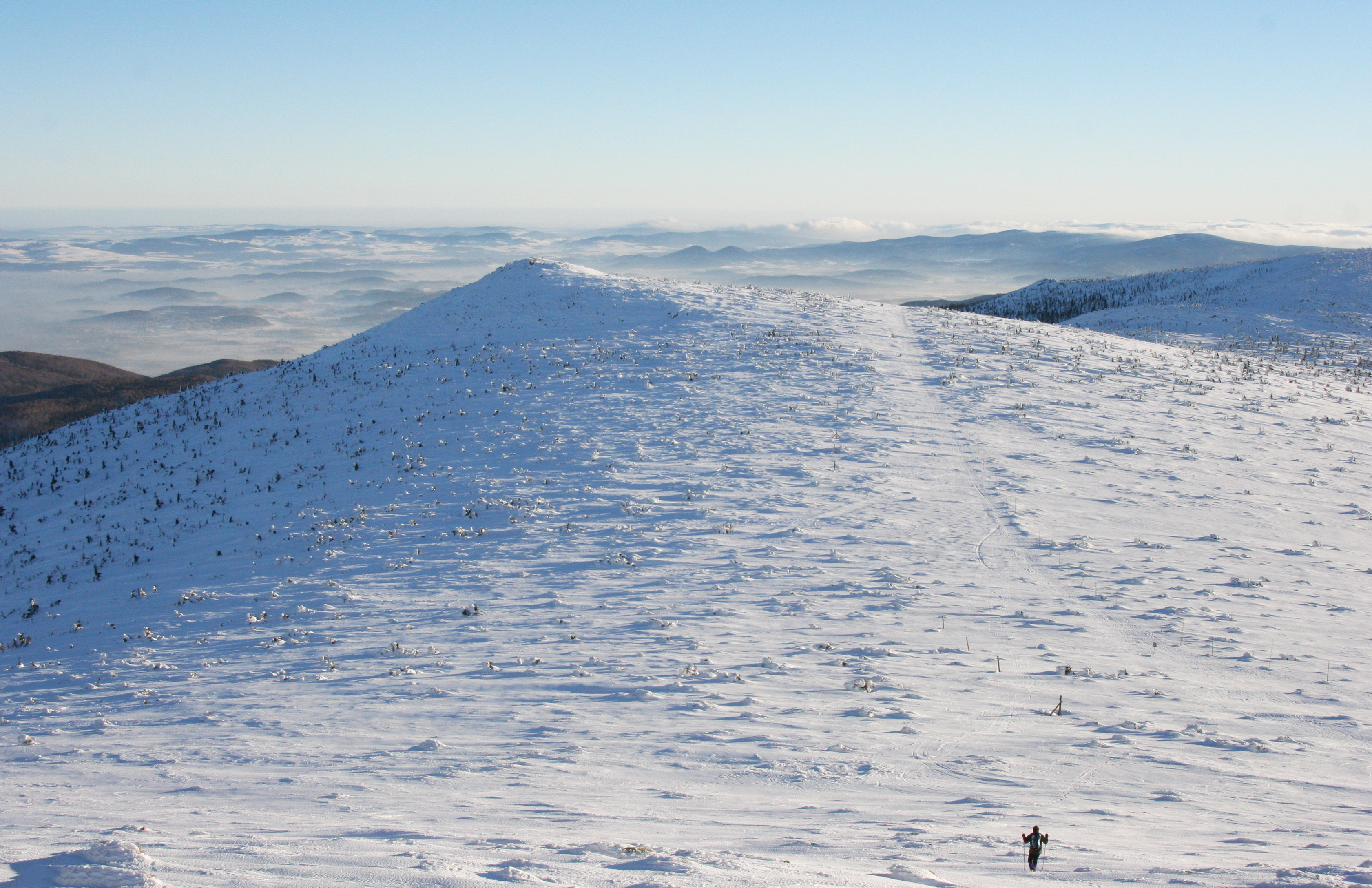 Śmielec (1424 m above sea level) view from Wielki Szyszak (1509 m above sea level) Karkonosze - Polish-Czech border. Winter 2006.